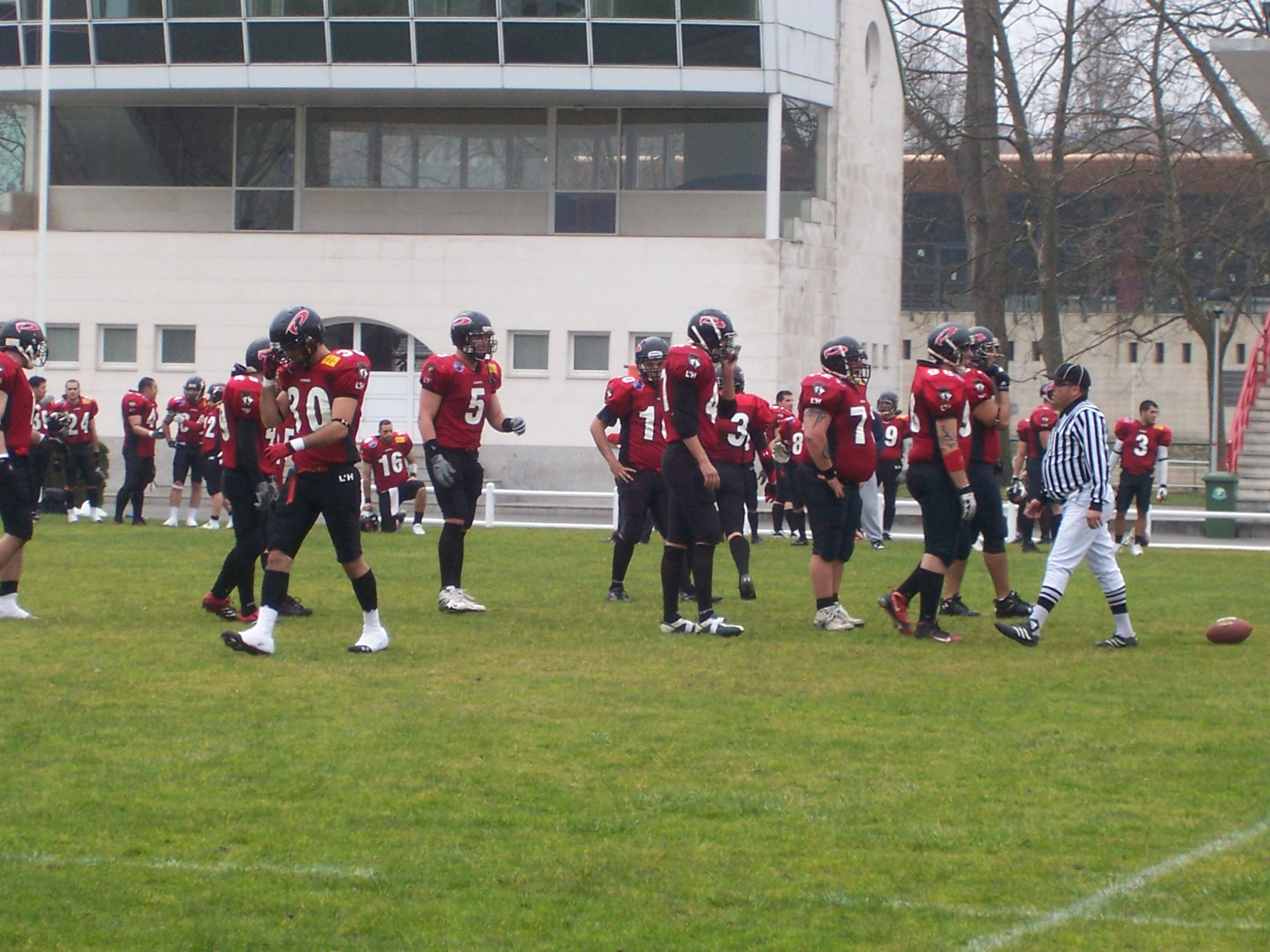 L'Hospitalet Pioners during a game at Gijón